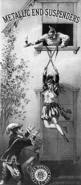 Advertisement showing girl eloping by hanging from balcony on her father's suspenders. Black and white print of color lithograph.